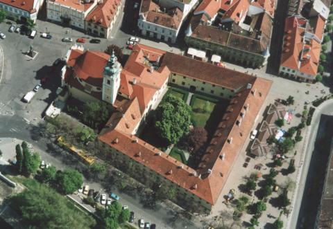 Győr, Hungary, aerialphotography